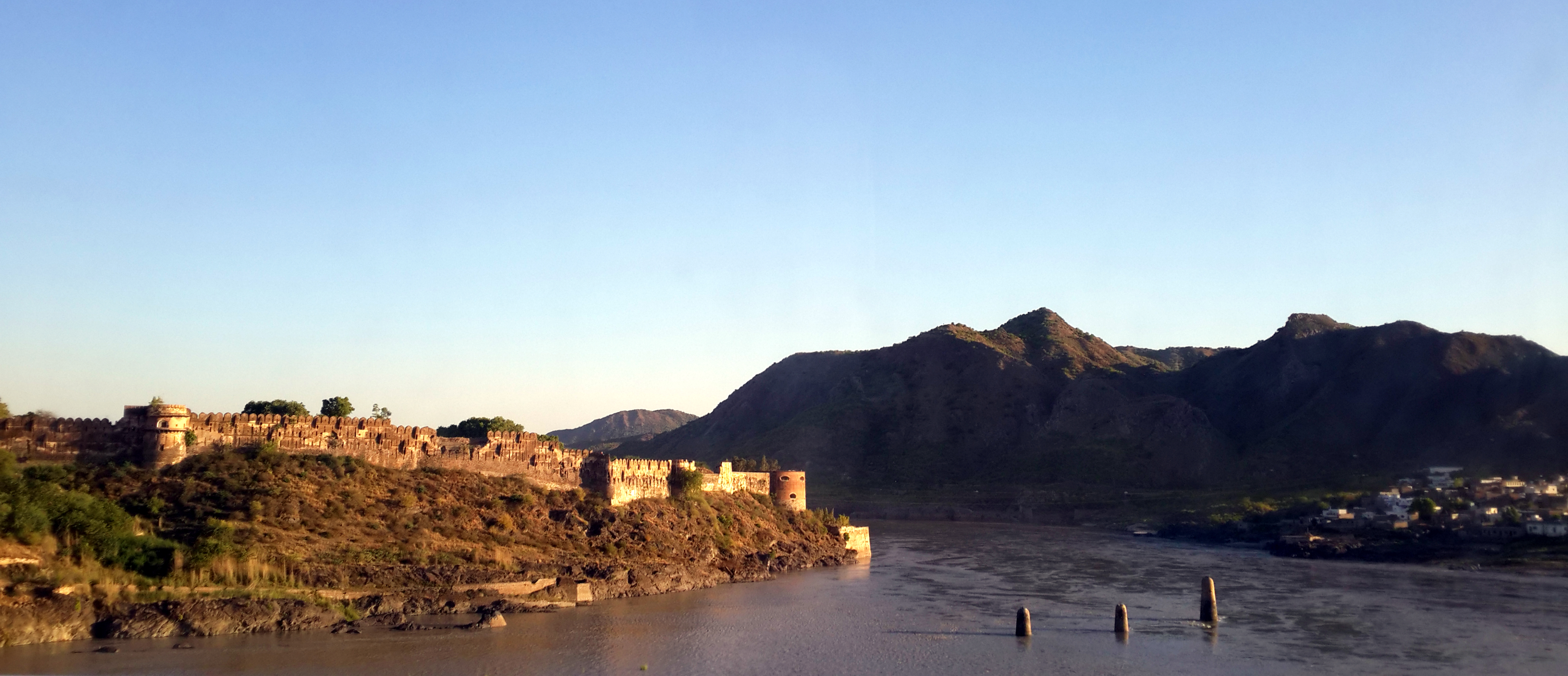 Attock Fort under the setting sun, looks even more beautiful! This is a photo of a monument in Pakistan identified as the PB-7